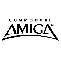 Logo used by Commodore in the US during the late 1980s.